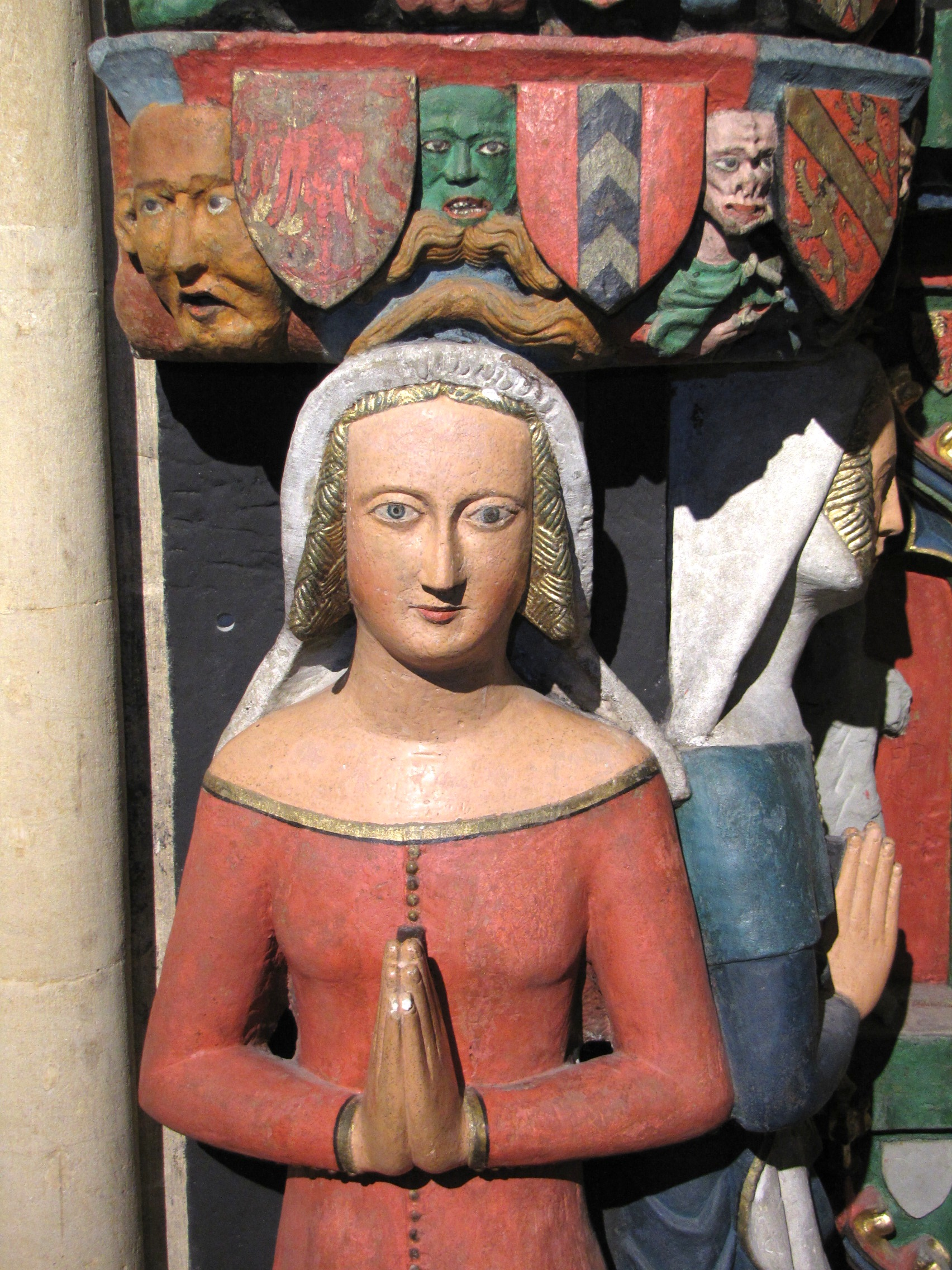 Cenotaph of counts of Neuchâtel. Detail of counts Louis's daugthers.